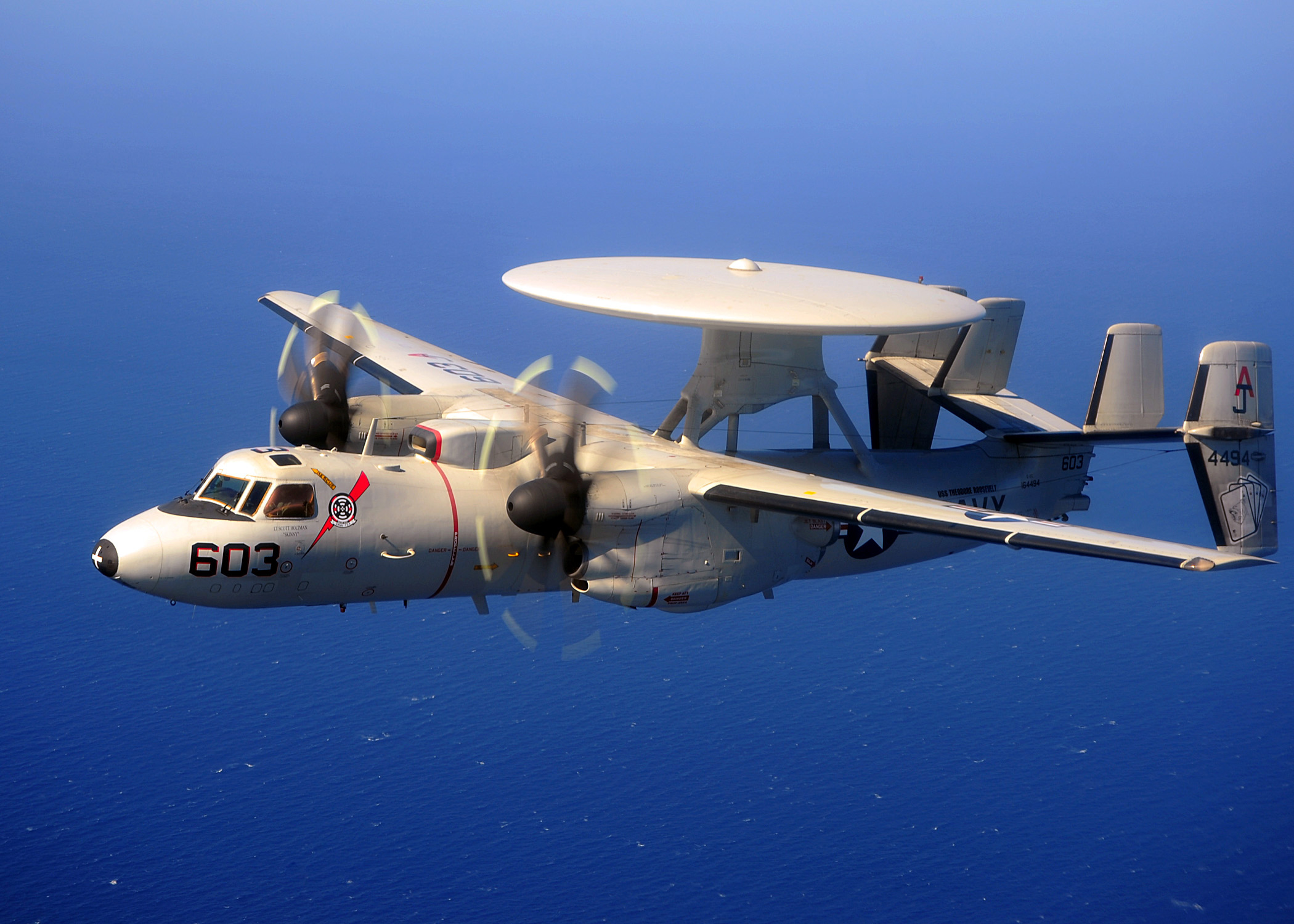 GULF OF OMAN (March 25, 2009) An E-2C Hawkeye, assigned to the "Bear Aces" of Carrier Airborne Early Warning Squadron (VAW) 124 flies over the Gulf of Oman. (U.S. Navy Photo by Mass Communication Specialist 3rd Class Jonathan Snyder/Released)